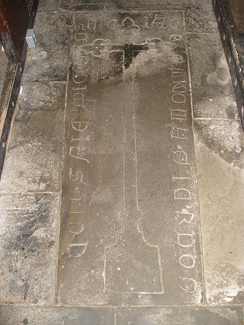 Ledger stone in the parish church of St Mary the Virgin, English Bicknor, Gloucestershire, dating from about 1420. It is incised with a cross and a rare example of Lombardic script. The inscription translates as "Pray for the soul of our departed brother in Christ".